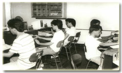 pats old room